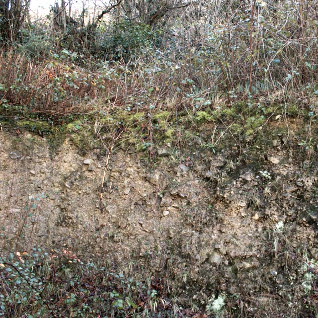 Devon Culm Subsoil This is what is under your feet in this part of Devon. The subsoil is very stony and well-drained with a thin but fertile topsoil with a high clay content. This bank was cut into a fairly steep hillside. Agriculturally, this type of land is mainly used for grazing or forestry.